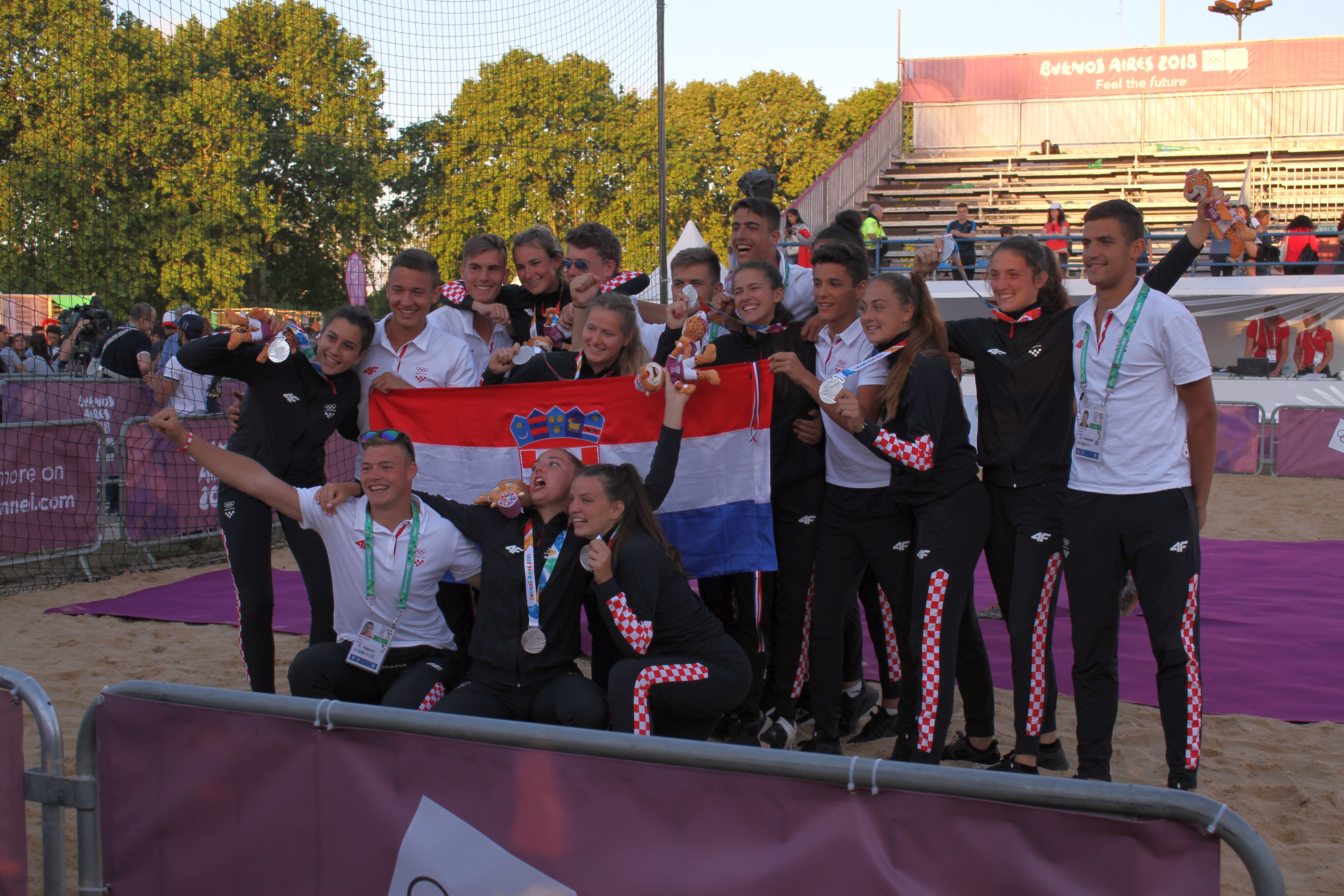 Beach handball at the 2018 Summer Youth Olympics in Buenos Aires at 13 October 2018 – Medal Ceremonies